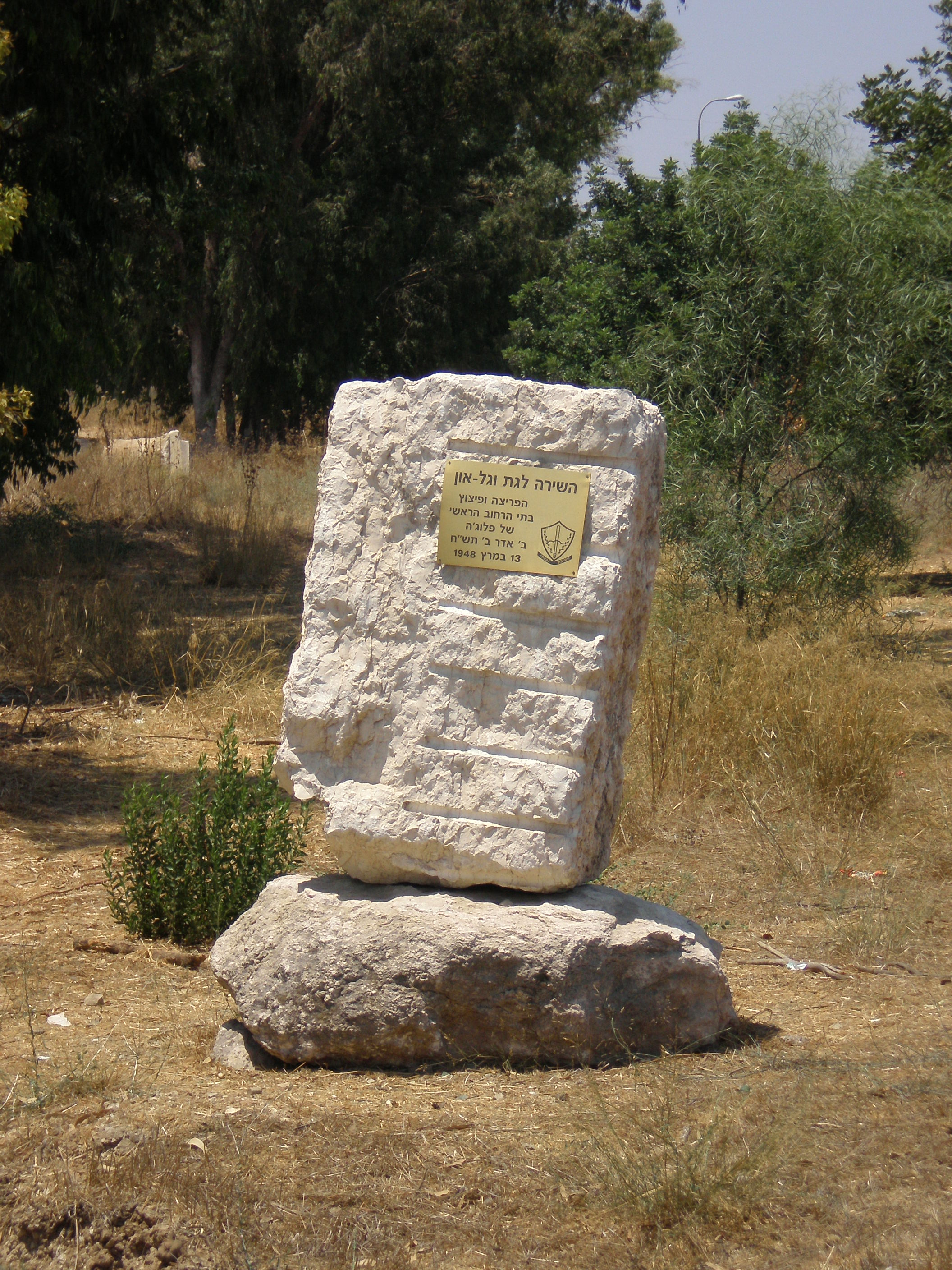 Memorial to Giv'ati convoy to Gat and Gal-On, taken in Tzomet Plugot (צומת פלוגות), Israel.